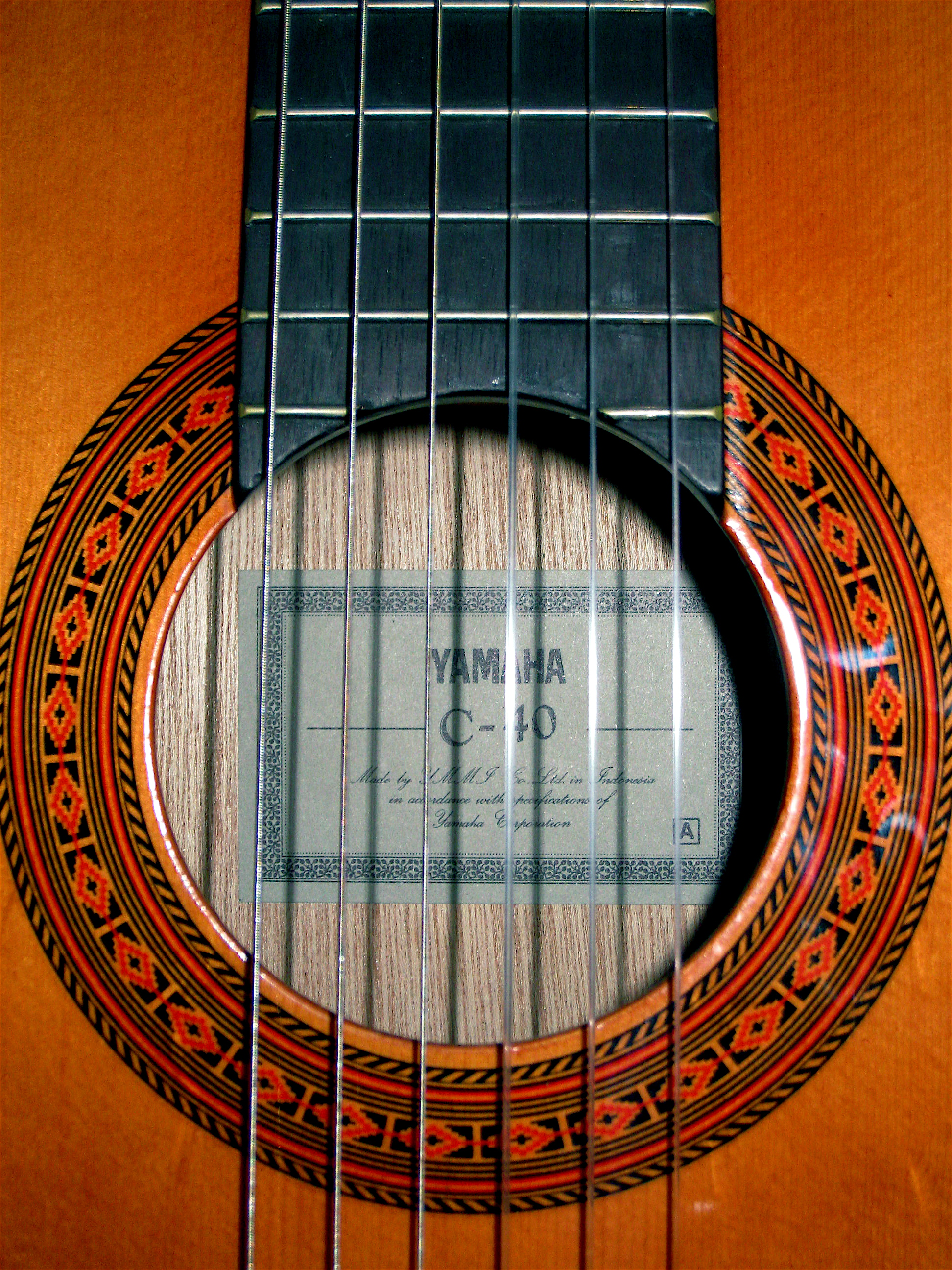 Land Locked Blues. March 15, 2009